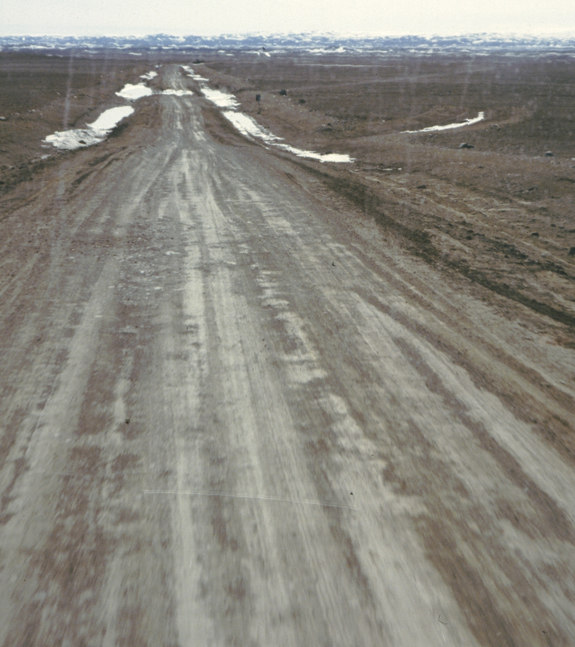 Ruta 40 Argentina, Province Santa Cruz, between Junction with RP 5 from La Esperanza and border to Chile